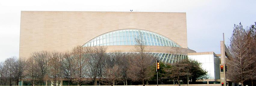 Morton H. Meyerson Symphony Center, Dalla, Texas, USA